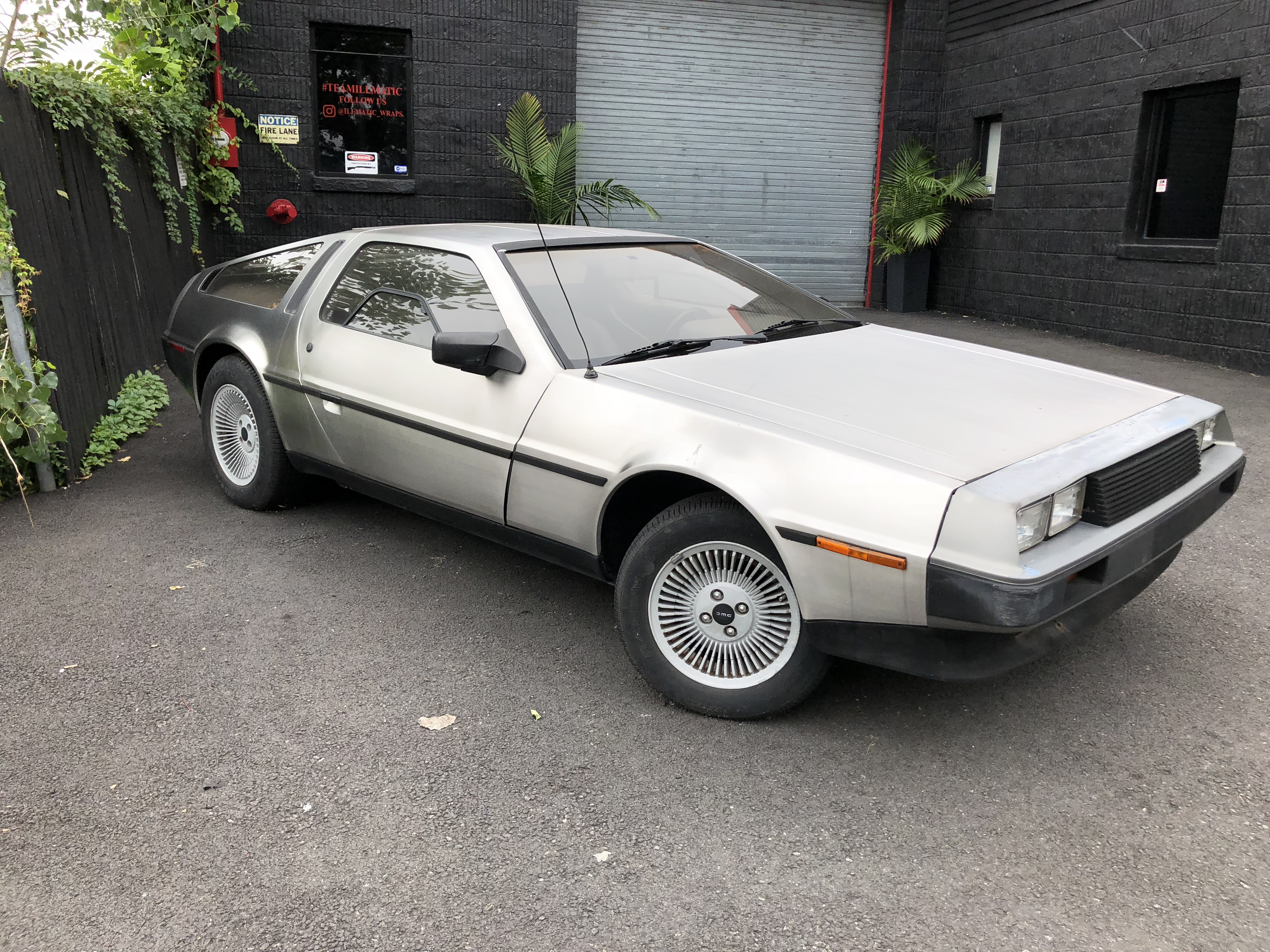 A De Lorean along Bergen County Route 503 (Moonachie Road) in Hackensack, Bergen County, New Jersey